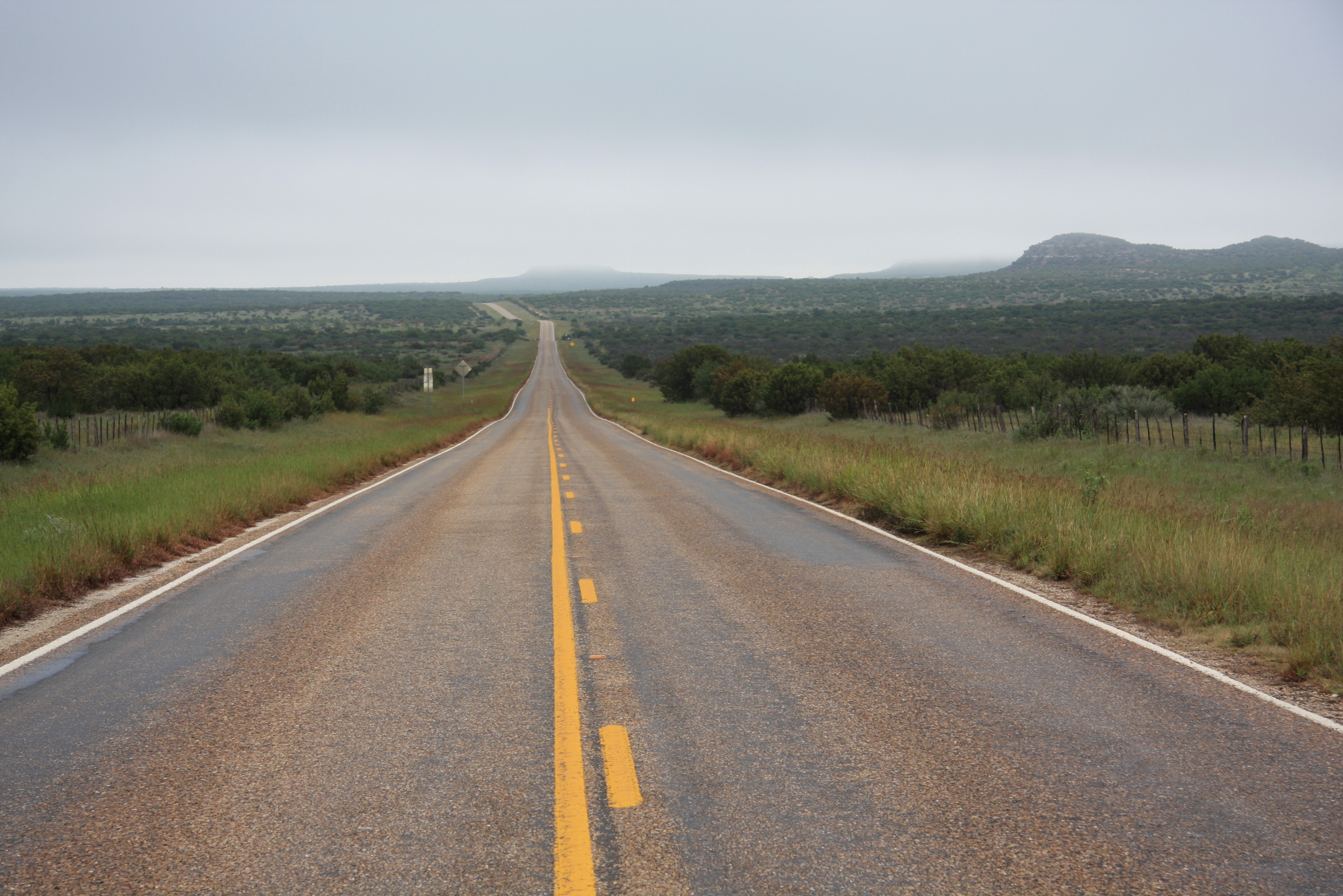 Morning fog lifting over Texas State Highway 222, to the north of Buzzard Peak, King County, Texas.